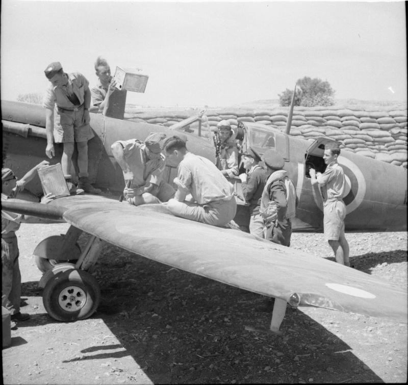 Royal Air Force Operations in Malta, Gibraltar and the Mediterranean, 1940-1945. Ground crew refuel a Supermarine Spitfire Mark VC of No. 601 Squadron RAF, using four-gallon petrol tins, in a sandbagged revettment at Luqa, Malta, while two armourers service the Spitfire's cannon. In the cockpit, conferring with other squadron personnel, is Flight Lieutenant Dennis Barnham.